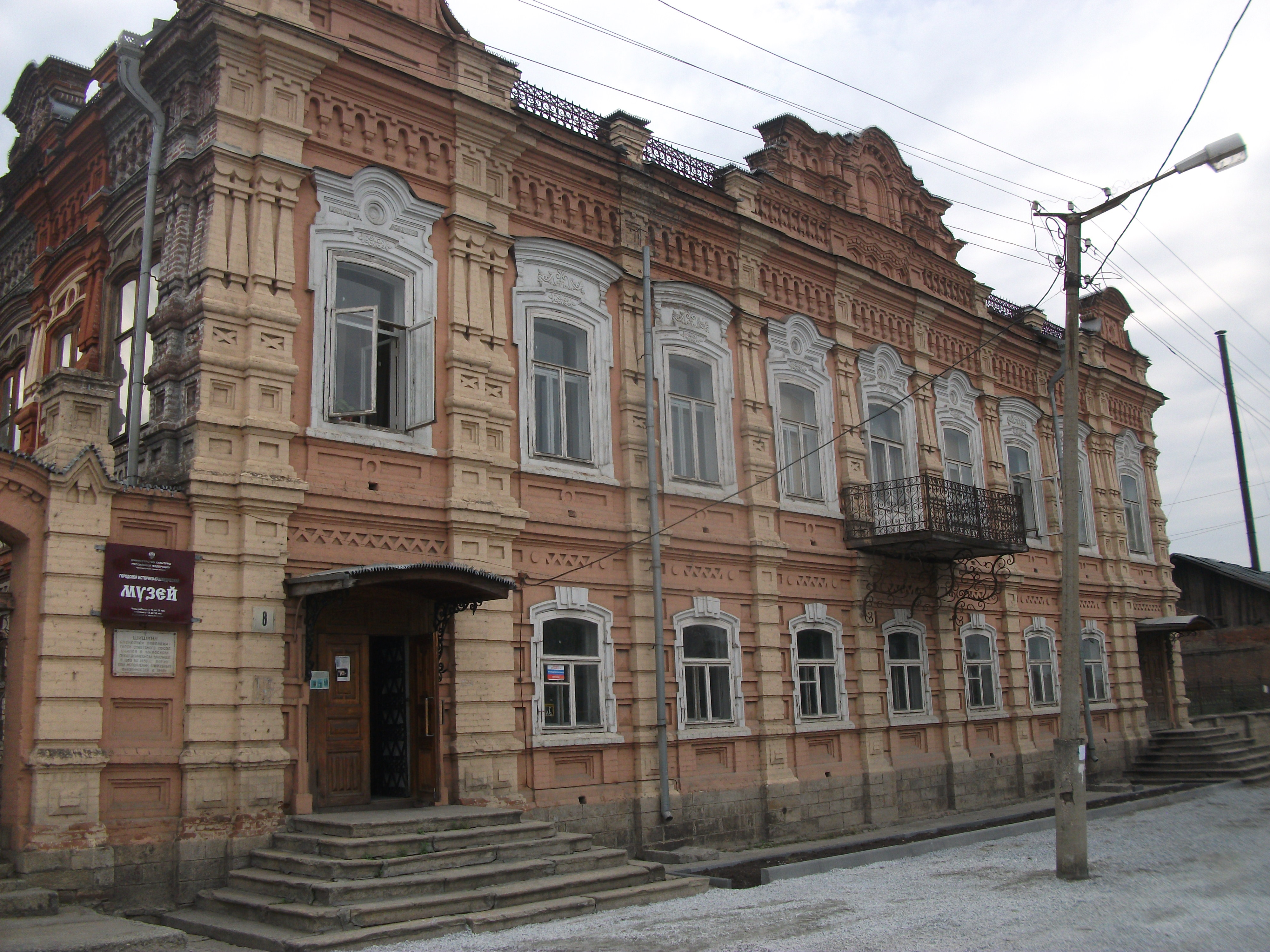 Miass, old part of the town, local museum